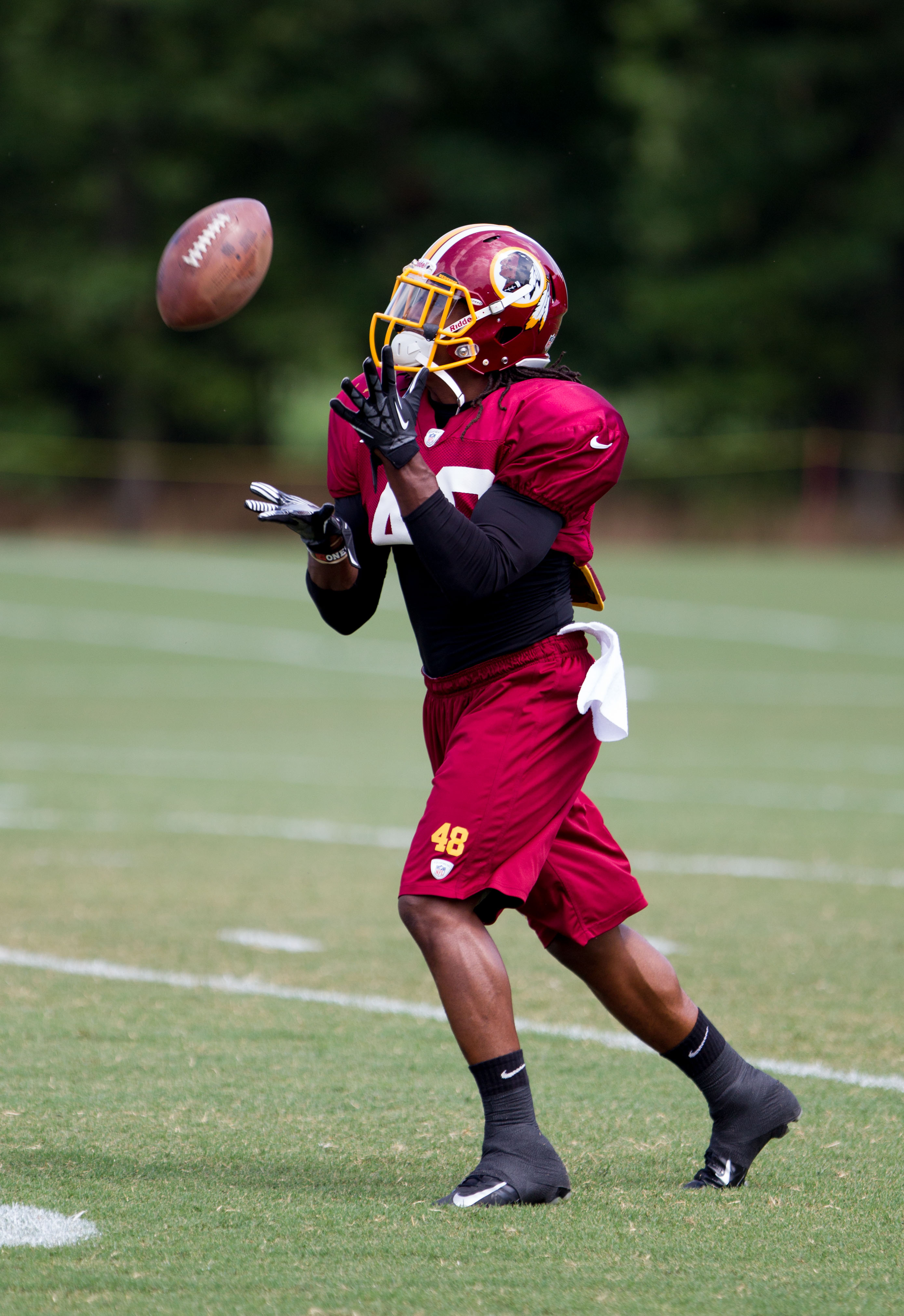 Jordan Bernstine at Washington Redskins Training Camp July 30, 2012